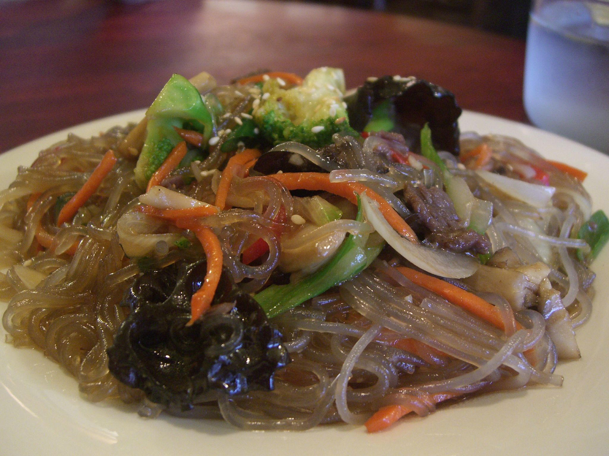 Japchae, a noodle salad in Korean cuisine